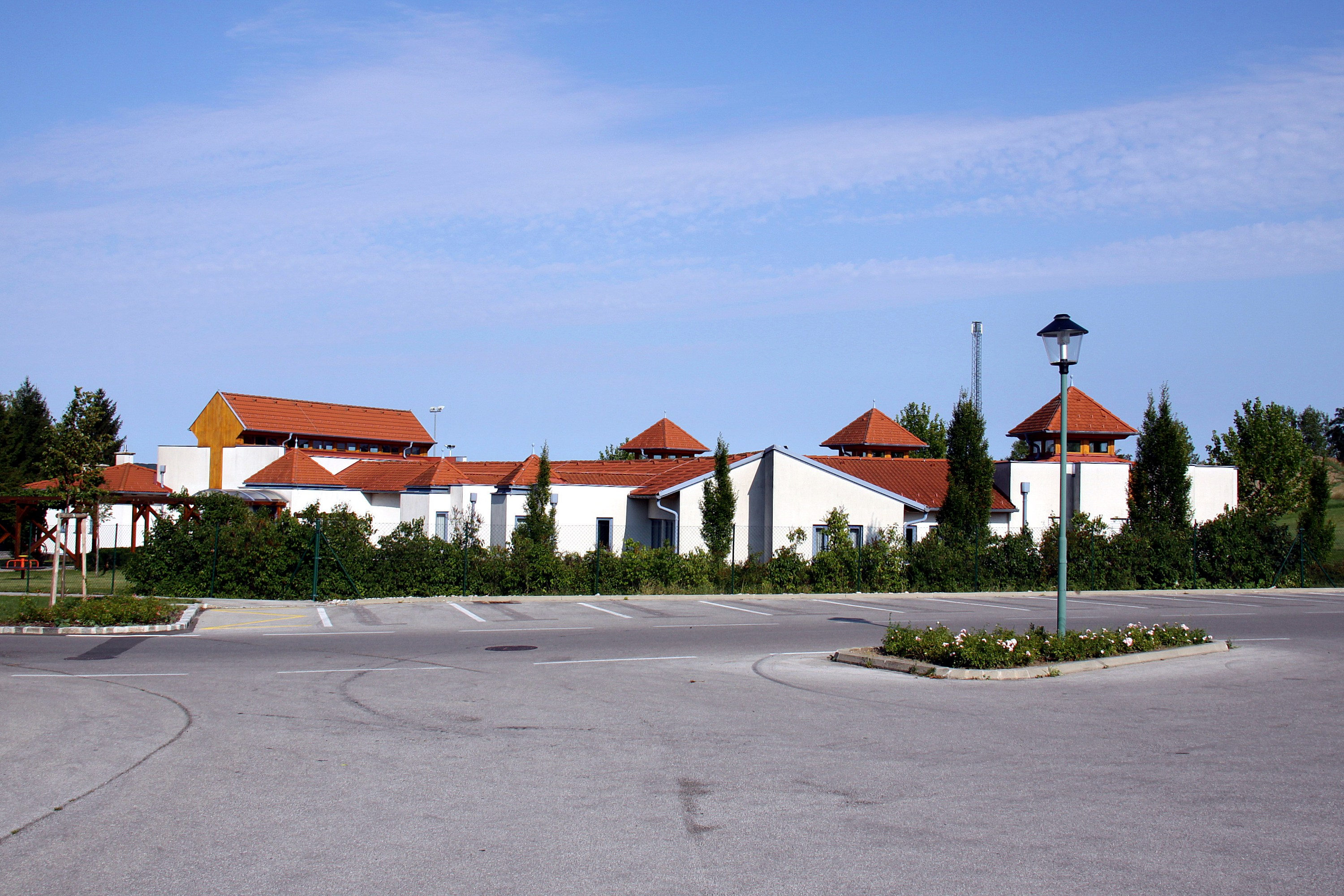 Kindergarten - Schattendorf Object location region:AT-1&language=en 47° 42′ 30.27″ N, 16° 30′ 55.39″ E - OpenStreetMap - Proximityrama (Info)